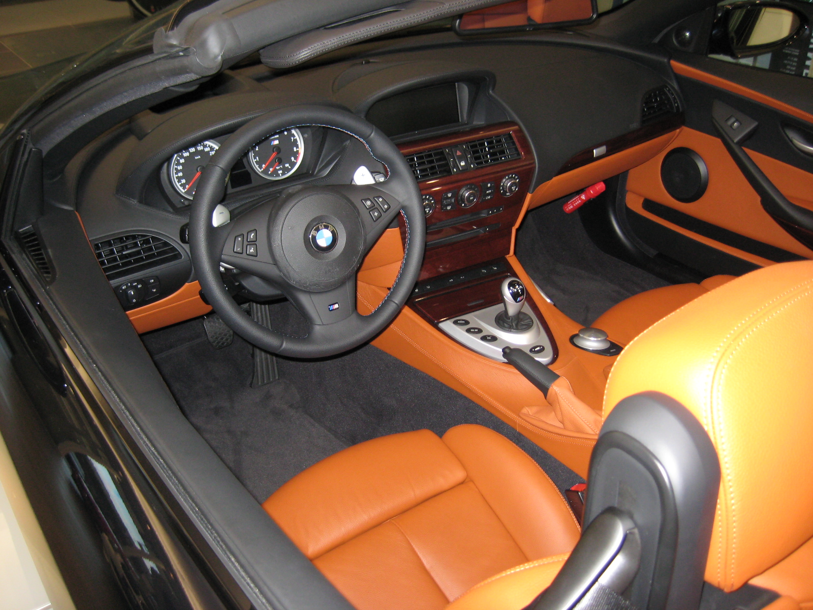 BMW E64 M6 Convertible Interior in BMW M Paddock (Gaienmae,Tokyo)